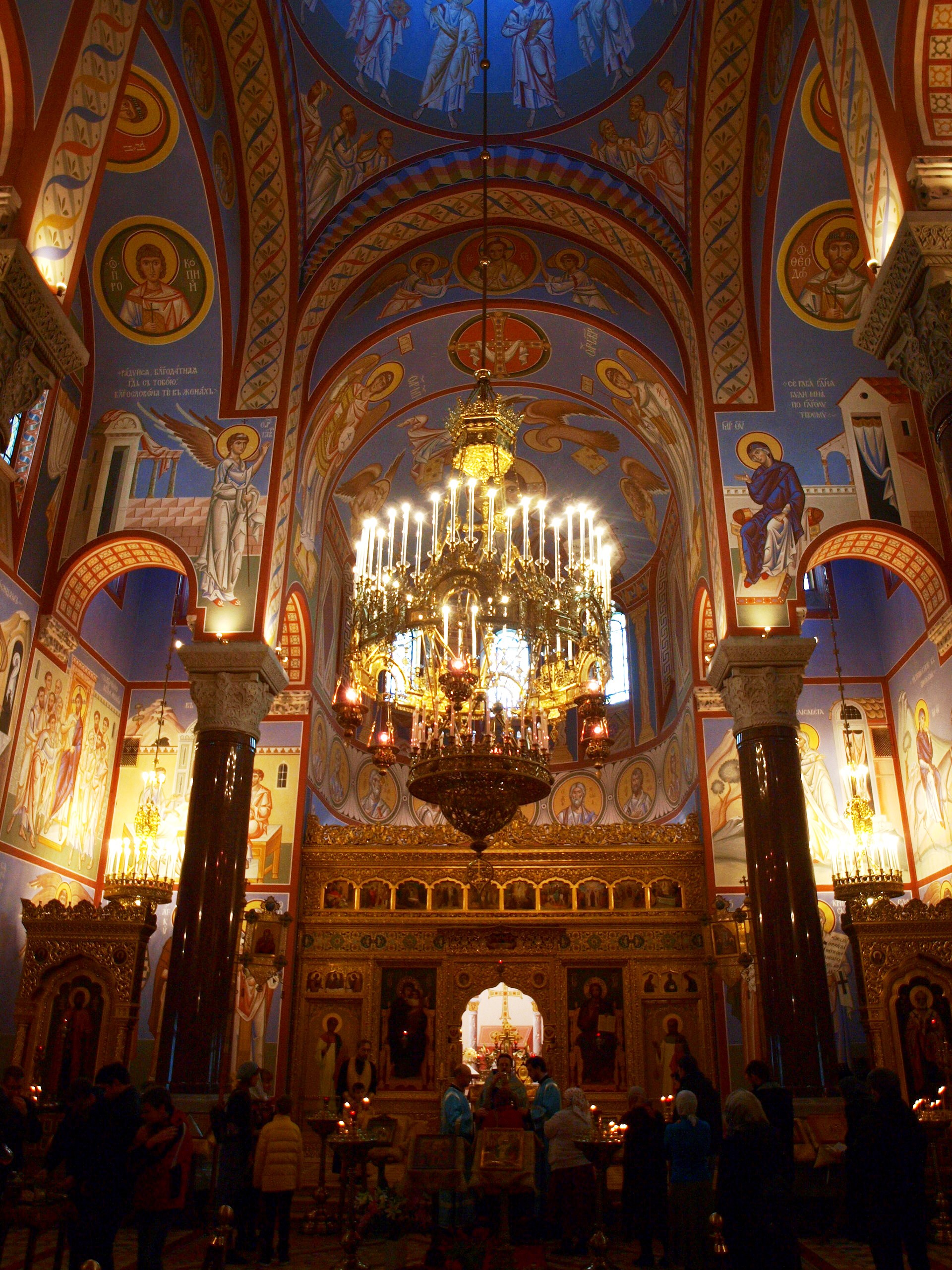 Vídeň - pravoslavný chrám sv. Mikuláše - interiér